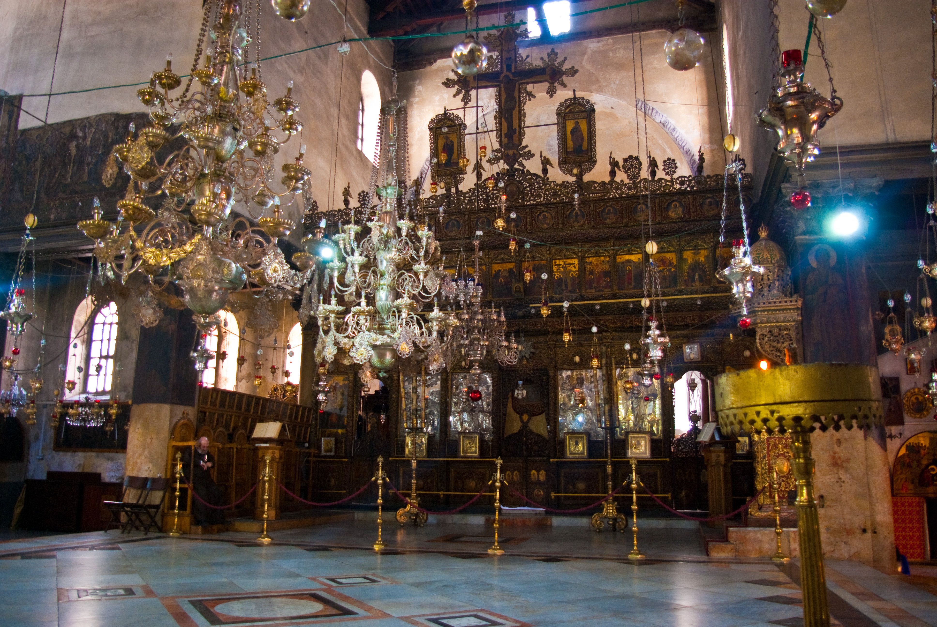 Church of the Nativity (Bethlehem)